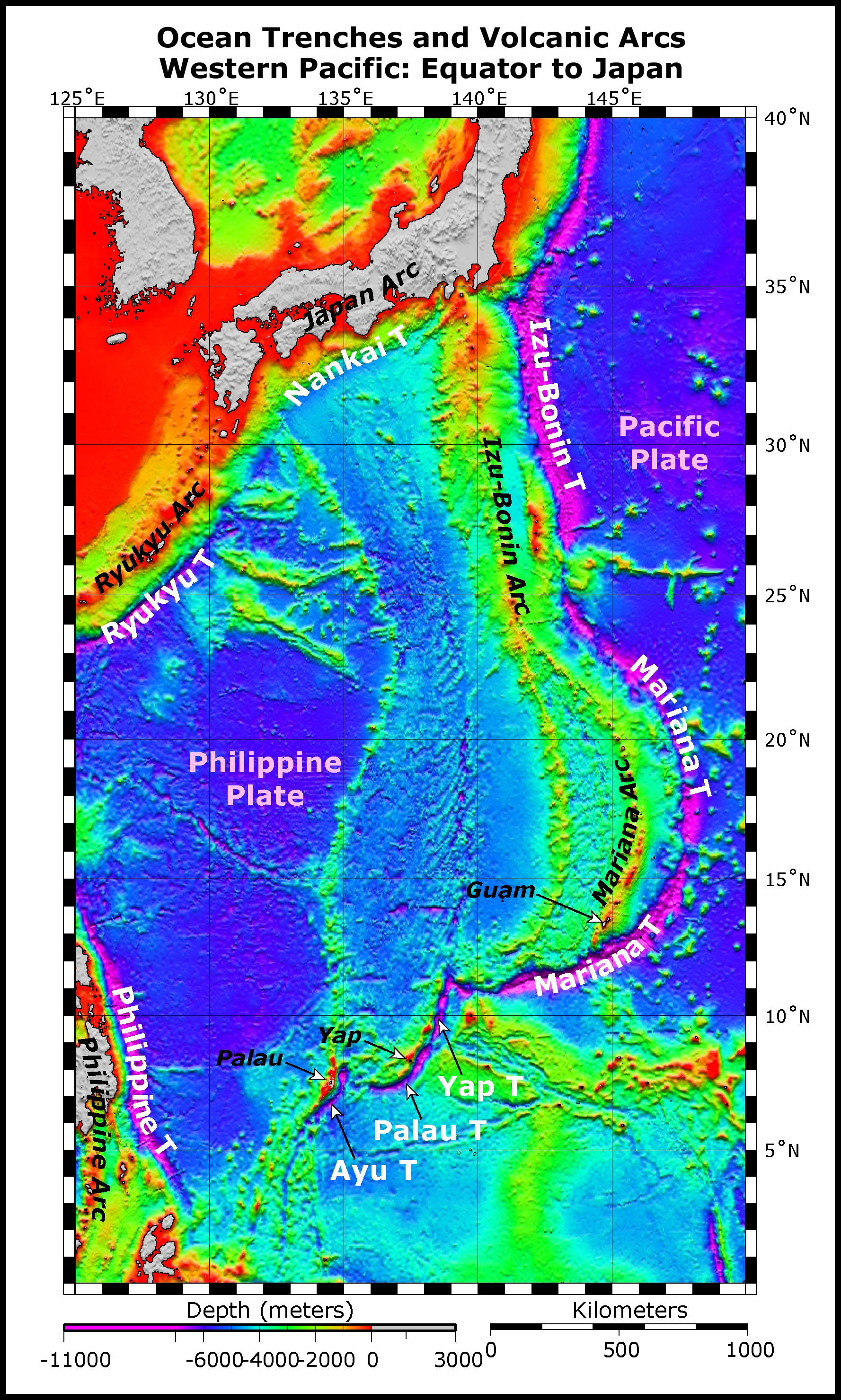 Ocean trenches and volcanic arcs of the western Pacific Ocean from the Equator to 40 North Image ID: map00148, Voyage To Inner Space - Exploring the Seas With NOAA Collect Location: Pacific Ocean